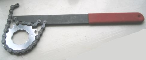 A chain whip tool, wrapped around a sprocket - enhanced brightness and contrast.